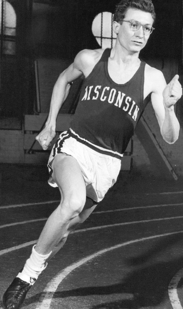 1955 US Olympic Middle Distance Runner Don Gehrmann Press Photo